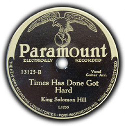 A record of King Solomon Hill's Times Has Done Got Hard, published by Paramount Records